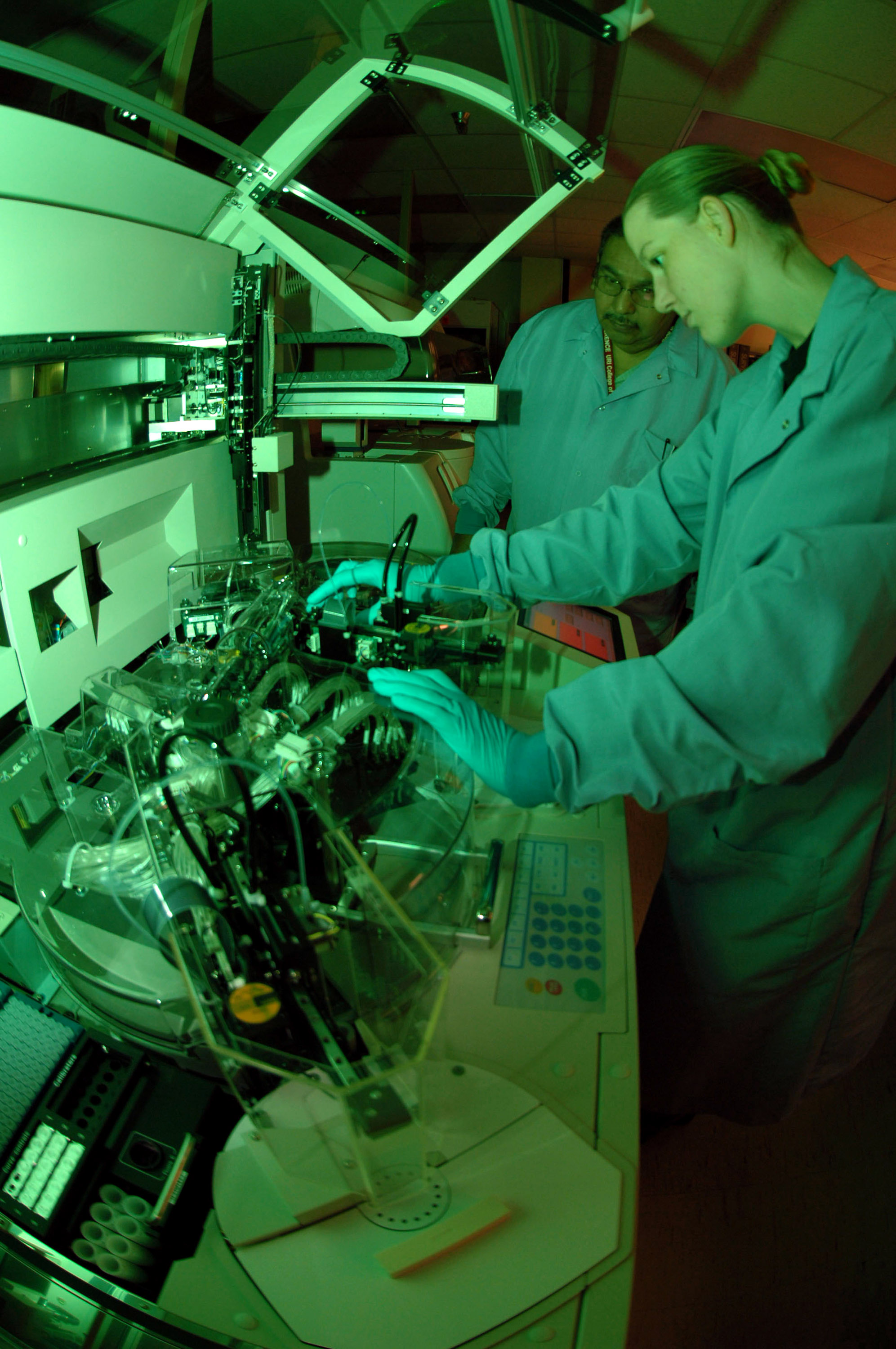 Staff Sgt. Kristin Parsons loads reagents into allergy testing machine in the diagnostic immunology lab at Wilford Hall Medical Center, Lackland Air Force Base, Texas. The lab recently was named the Air Force's Center of Excellence for allergen testing.